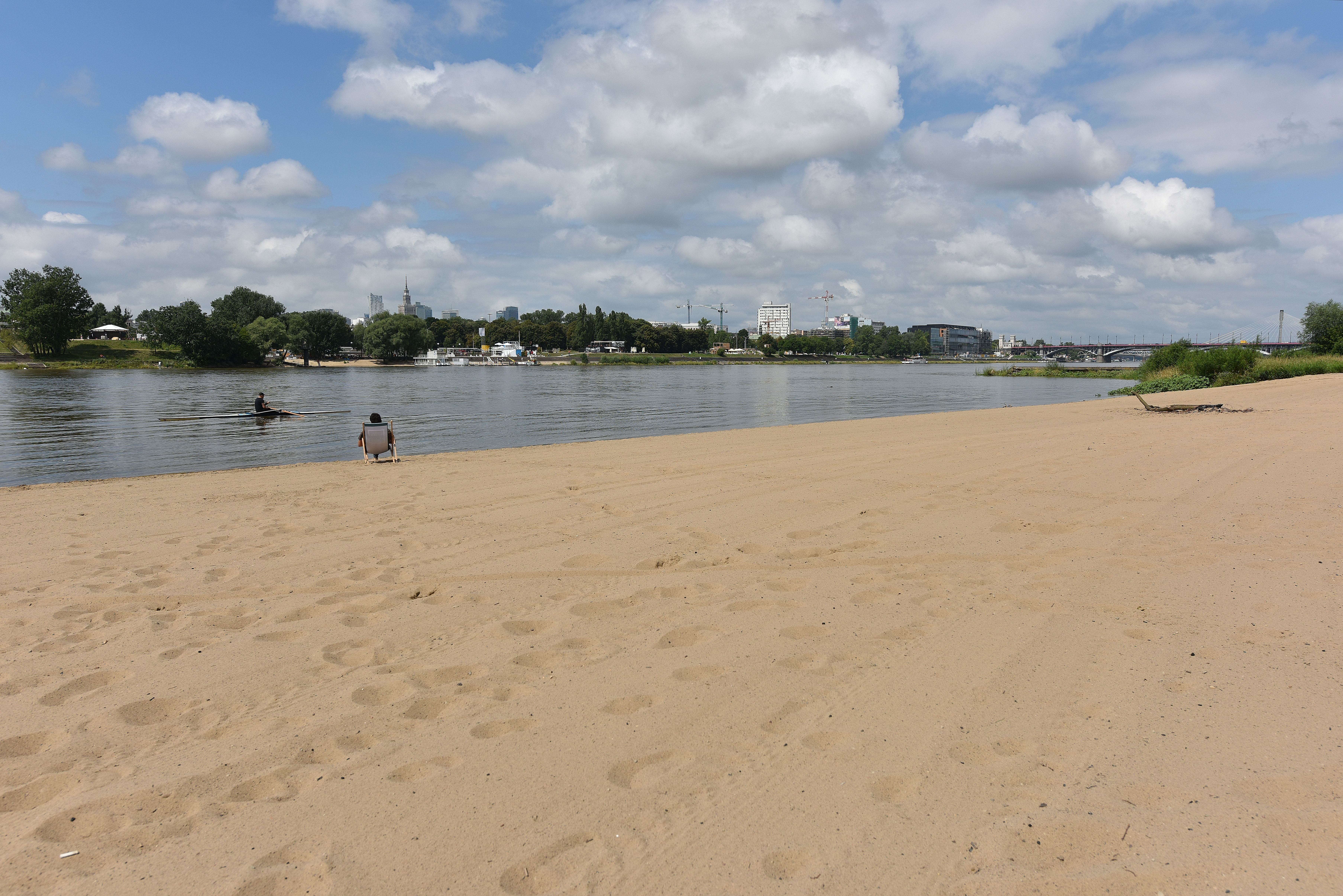 Saska Beach in Warsaw